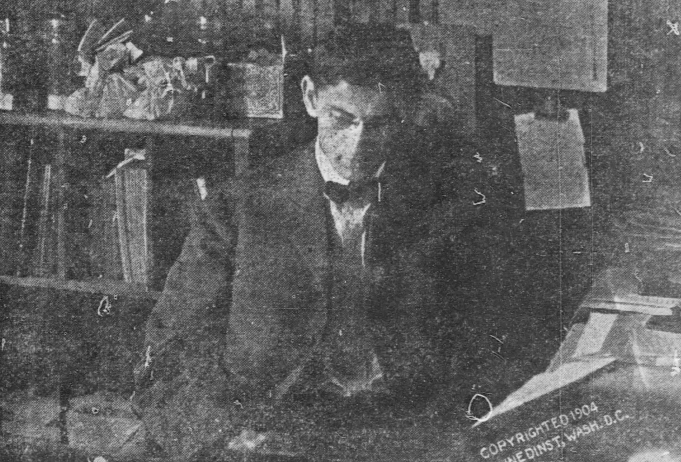 Guy N. Collins, botanist. Original caption: G. N. COLLINS Assistant Botanist in the Bureau of Tropical Agriculture and Prof Cooks Associate in the Investigation of the Habits of the Guatemalan Ant. He Accompanied Prof Cook on the First Trip to Guatemala.